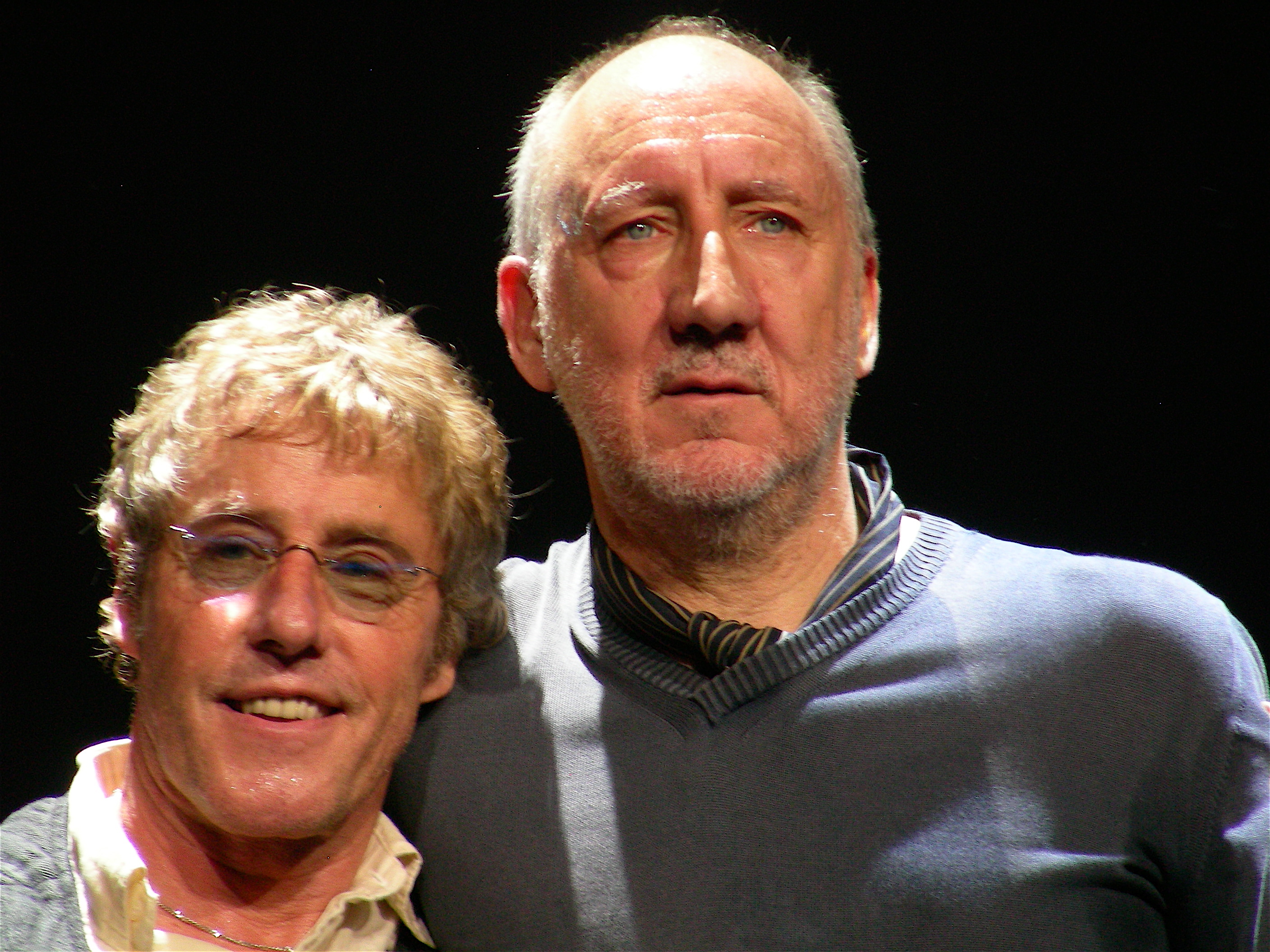 Roger Daltrey and Pete Townshend, Philadelphia, Oct. 26, 2008